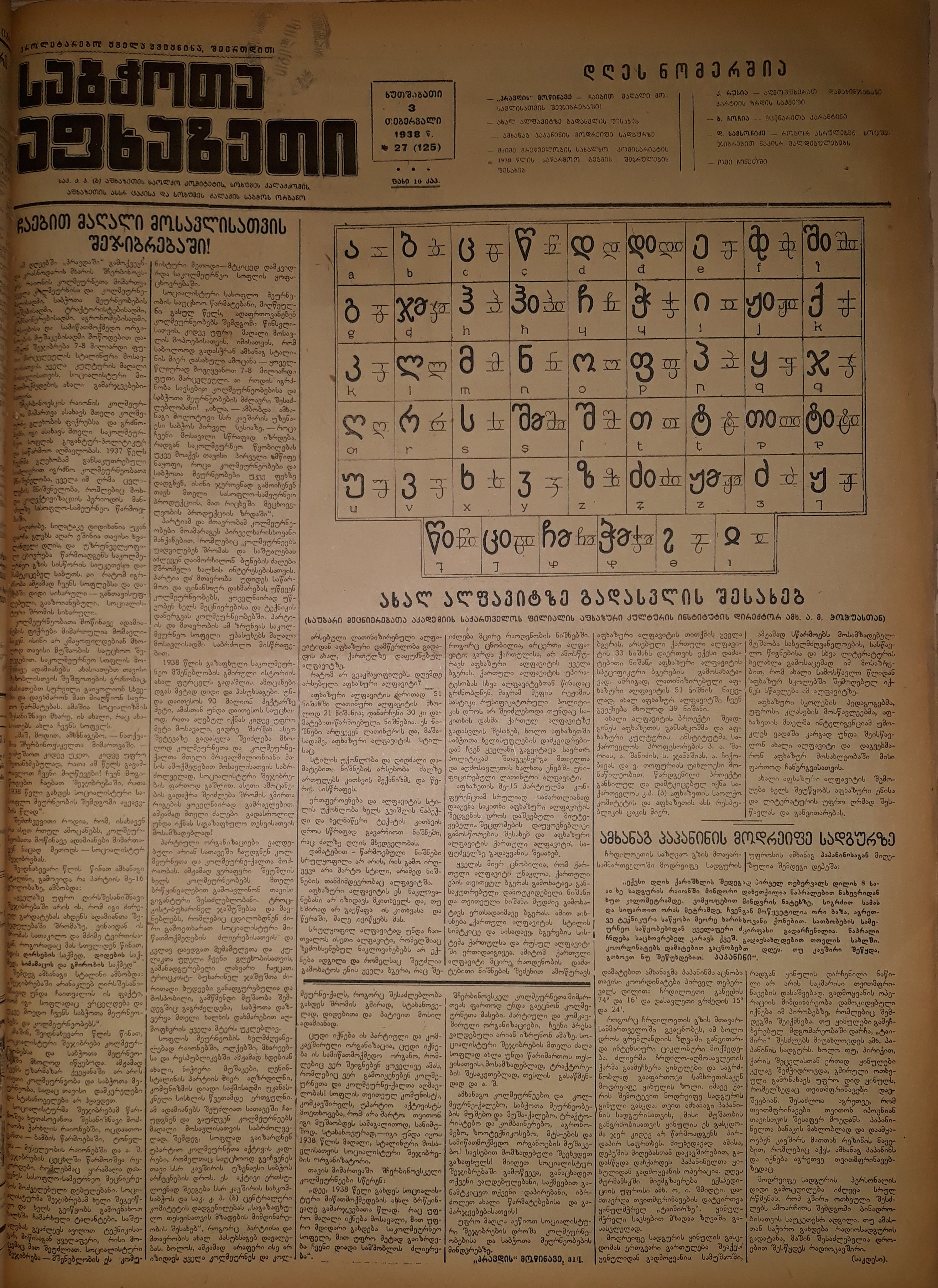 Newspaper „საბჭოთა აფხაზეთი“